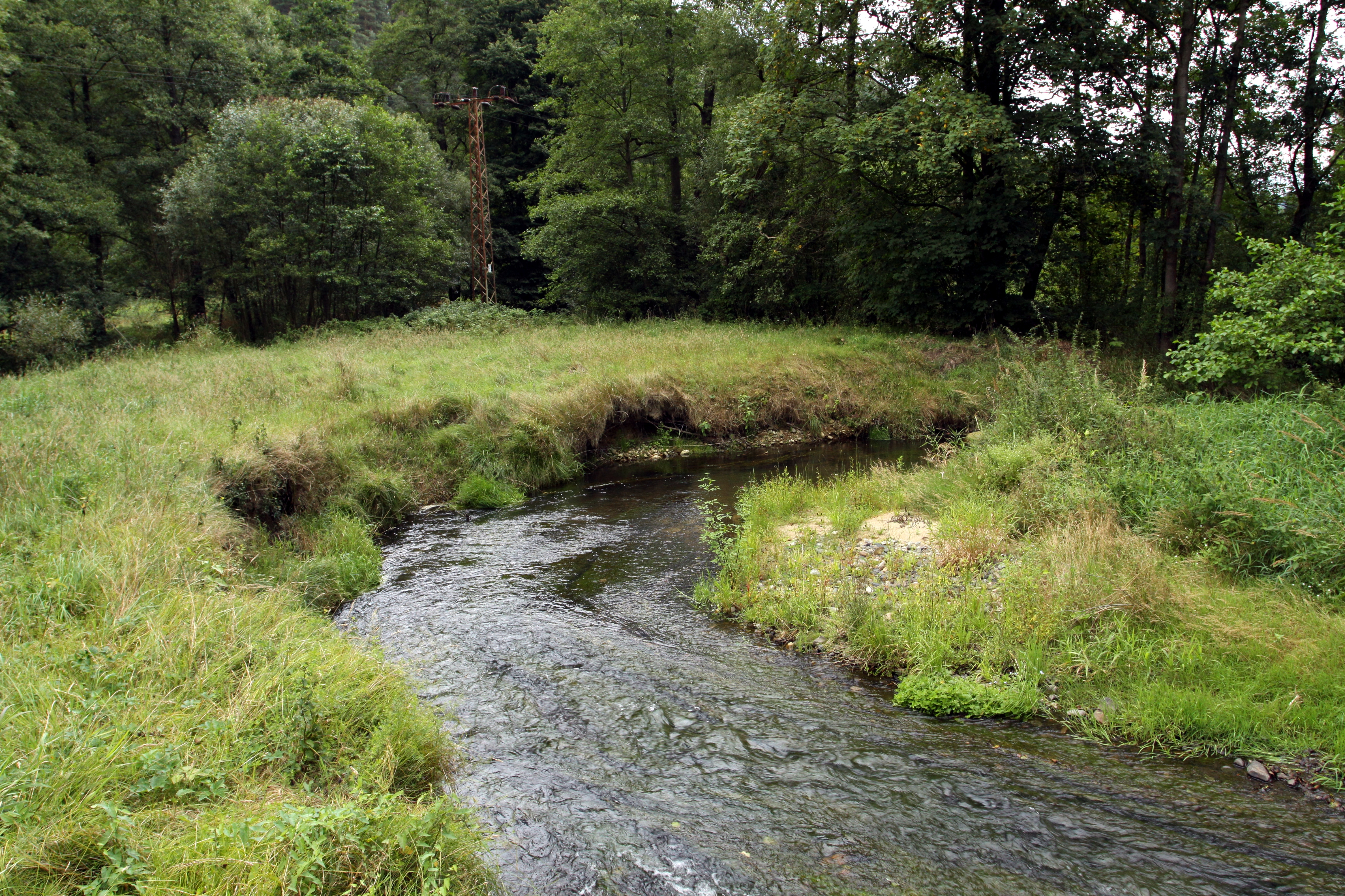 Natural monument Meandry Chřibské Kamenice near village Jetřichovice in Děčín District, Czech Republic